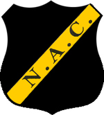 Crest NAC Breda, used from 1912 - 1968